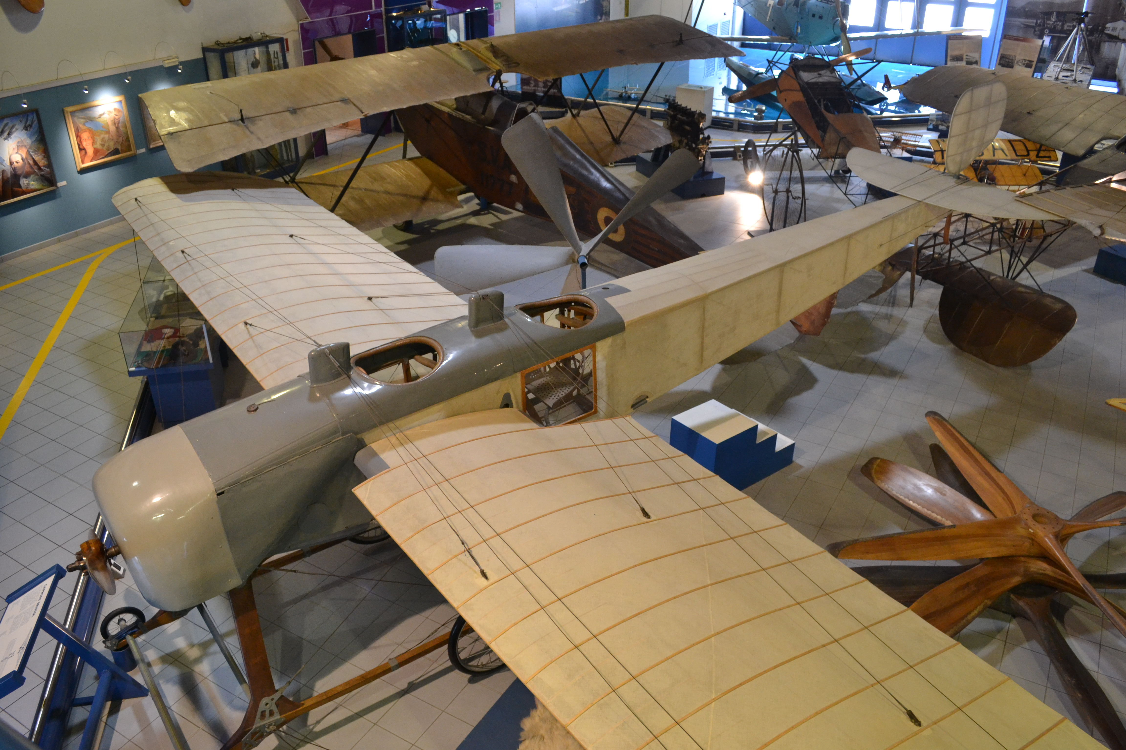 Three-quarter top view of a Caproni Bristol trainer monoplane on display at the Gianni Caproni Museum of Aeronautics.